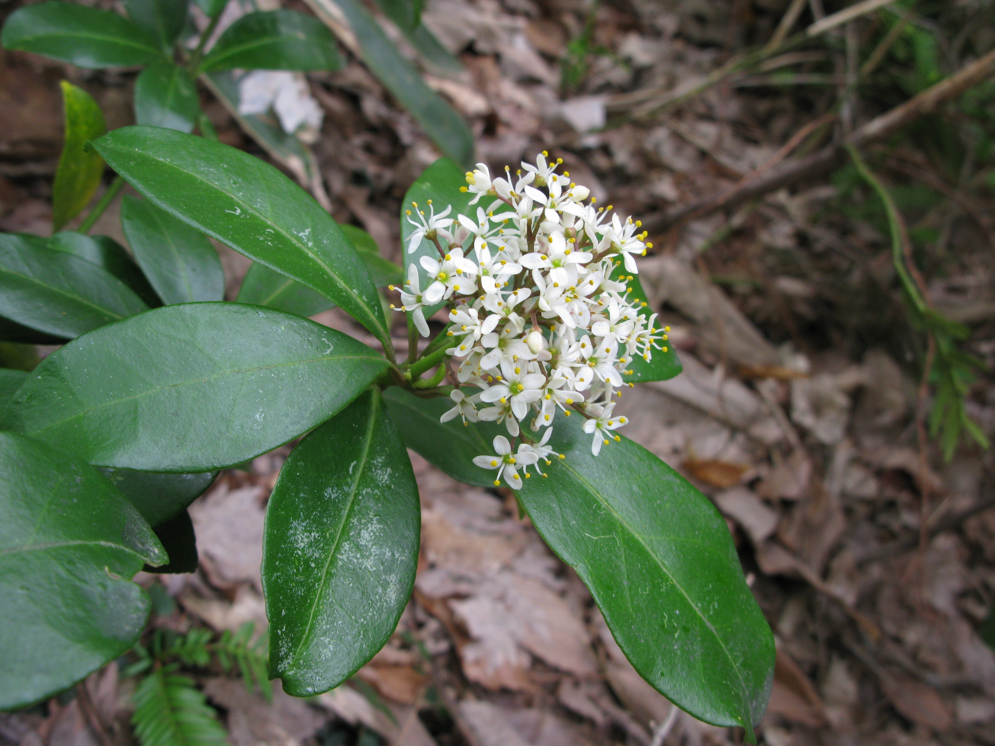 Skimmia japonica var. intermedia f. repens, Aizu area, Fukushima pref., Japan